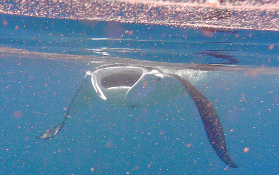 Manta alfredi foraging (manta ray ram feeding - swimming against the tidal current with its mouth open and sieving zooplankton from the water).